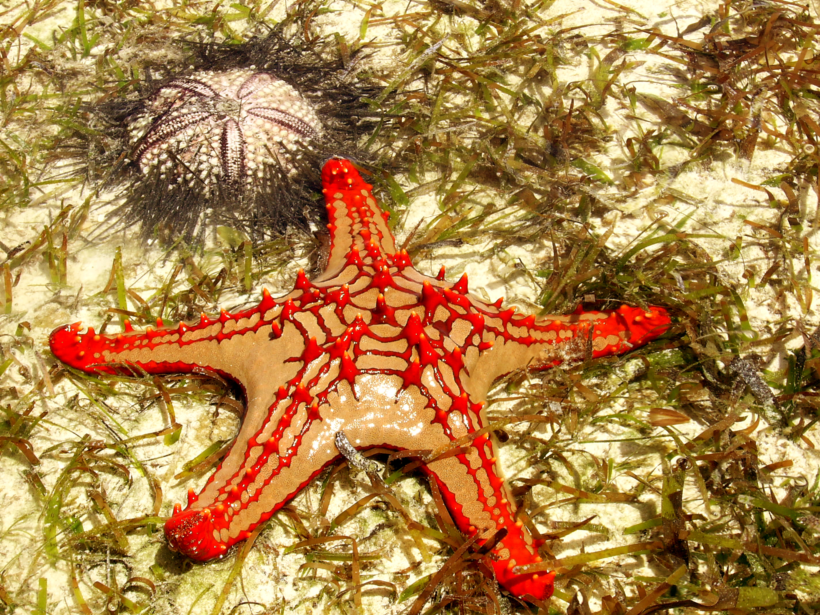 Seestern the star fish is live in the sea